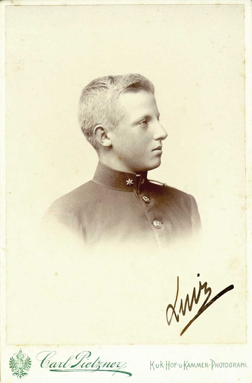 Louis, son of Isabella and future Prince Imperial of Brazil, 1893.